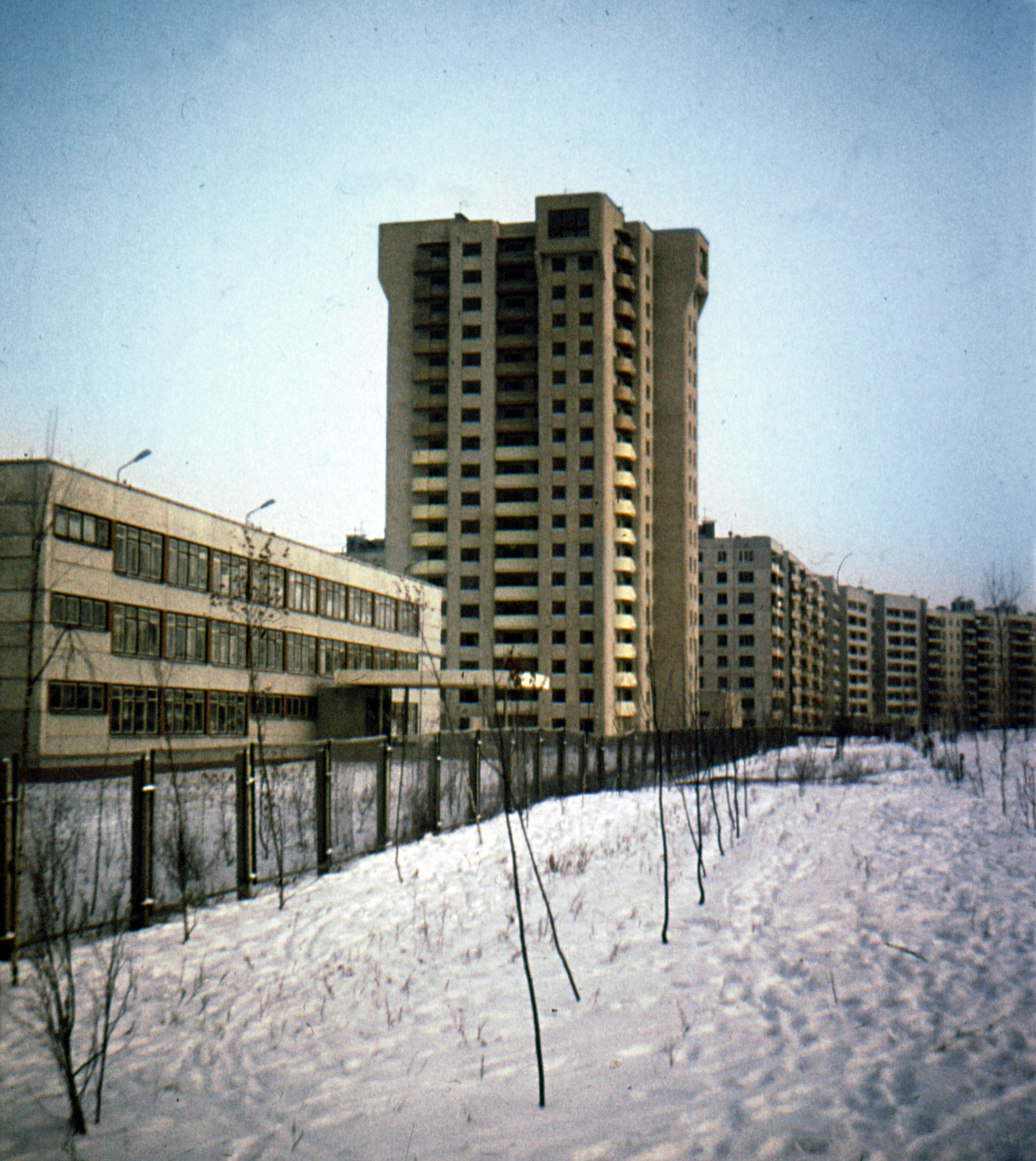 Cheboksary. Midshipman Pavlov Street (Ulitsa Michmana Pavlova). End of 1980s